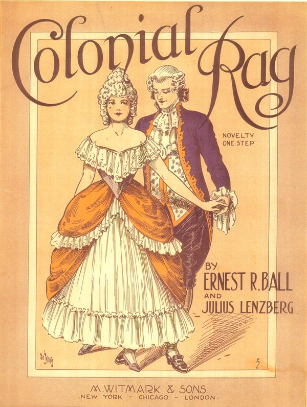 Colonial Rag, 1914